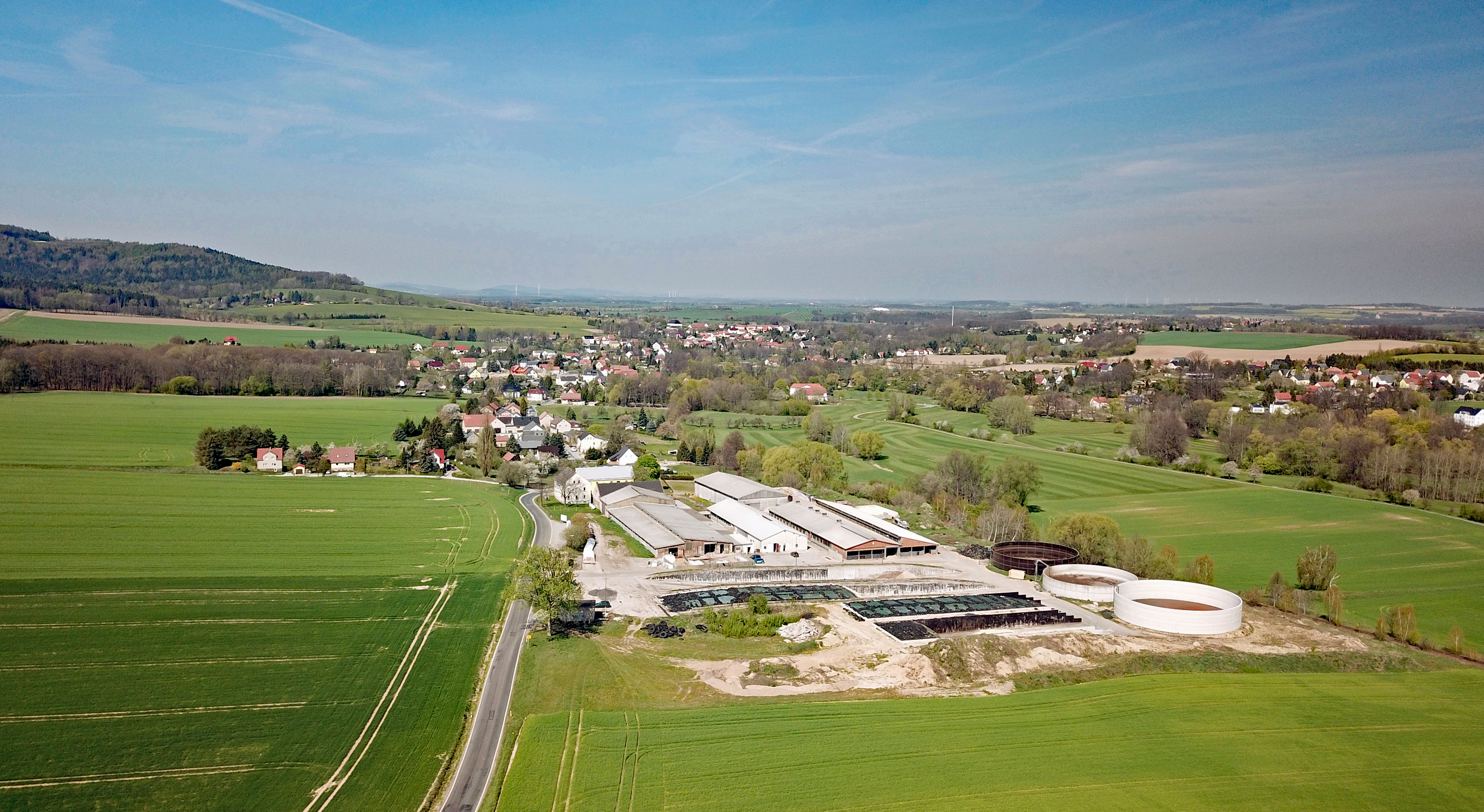 Lehn, Obergurig, Saxony, Germany Hornjoserbsce: Powětrowy wobraz Lejna pola Hornjeje Hórki